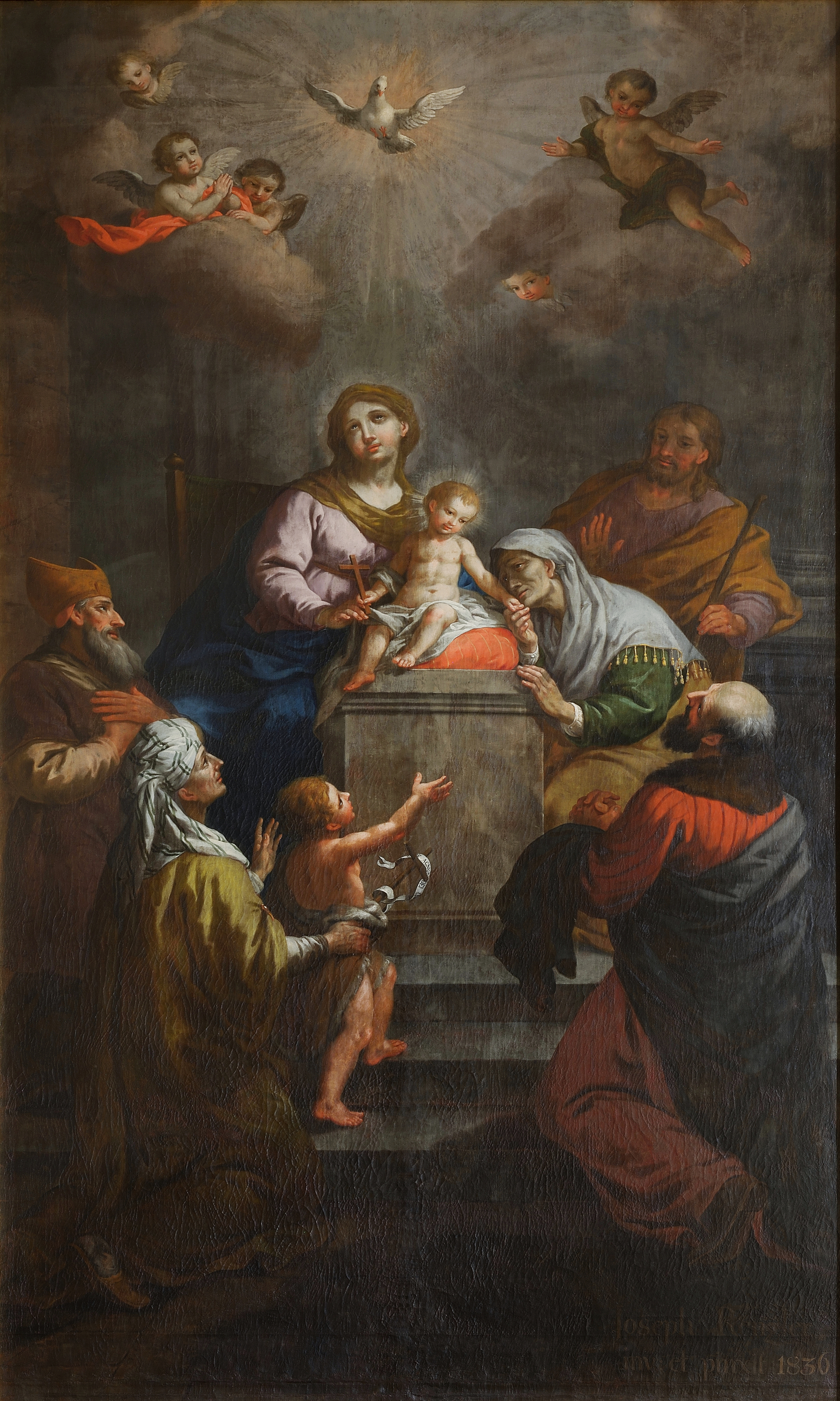 The parish church of Völs am Schlern - Painter Joseph Renzler 1836.